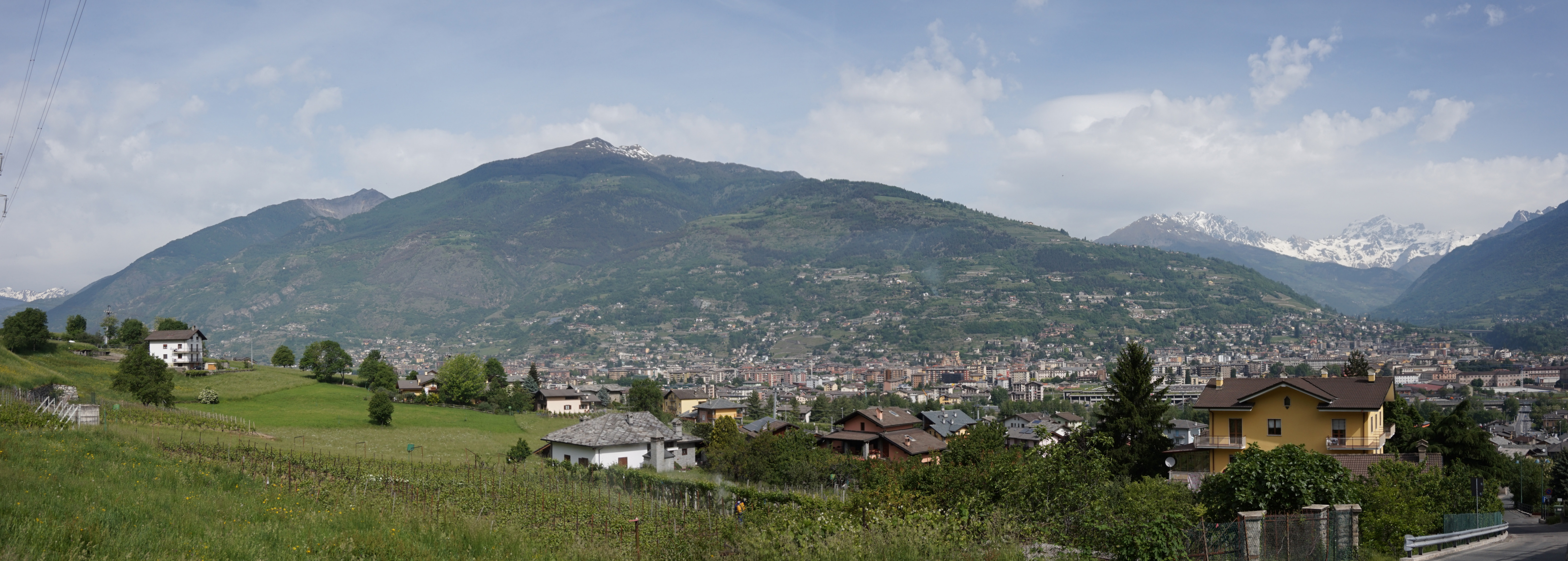 View from Charvensod to Mountain and Aosta.This photograph was taken with a Sony ILCE-5000